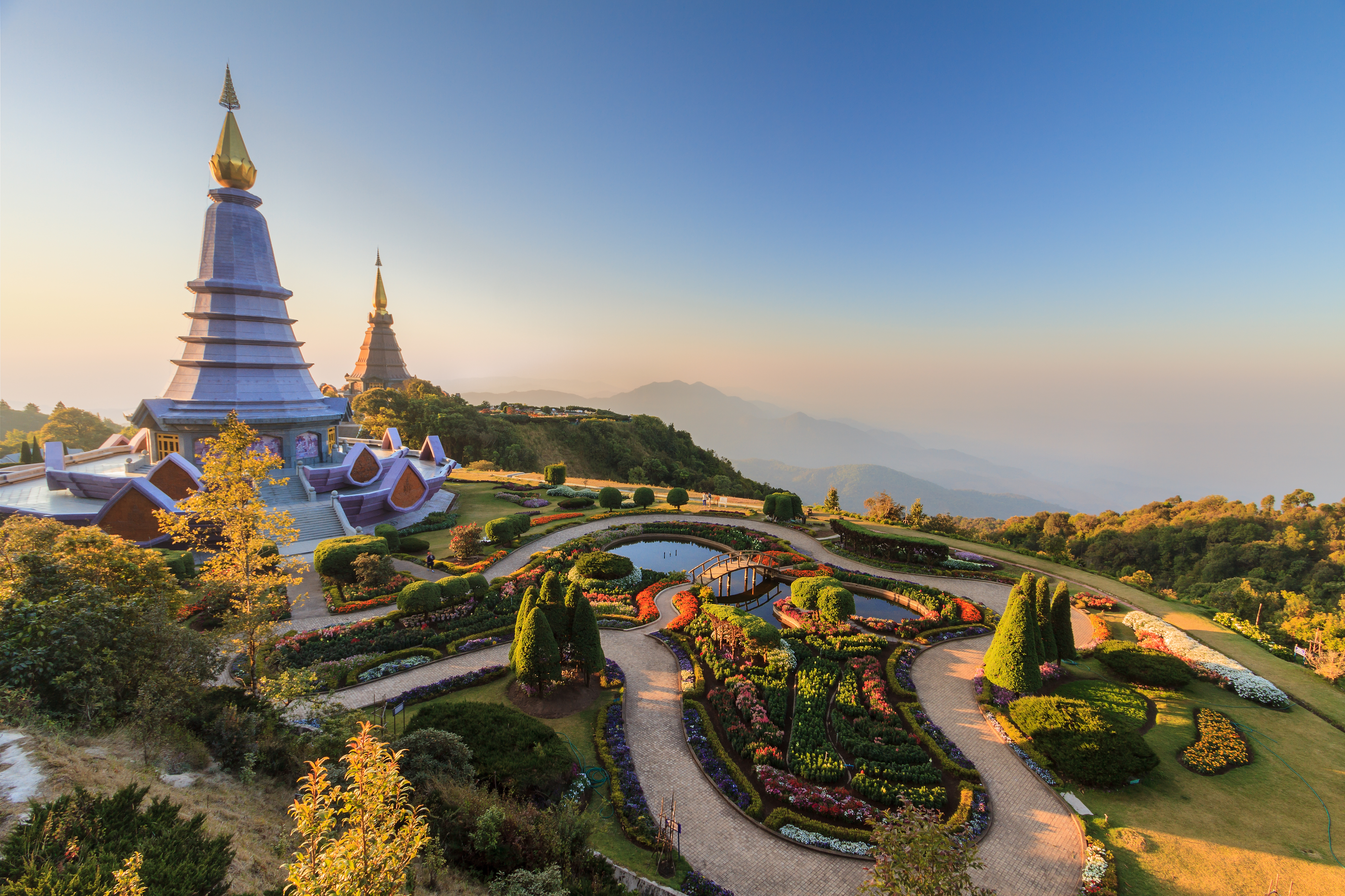 Royal chedis of Doi Inthanon